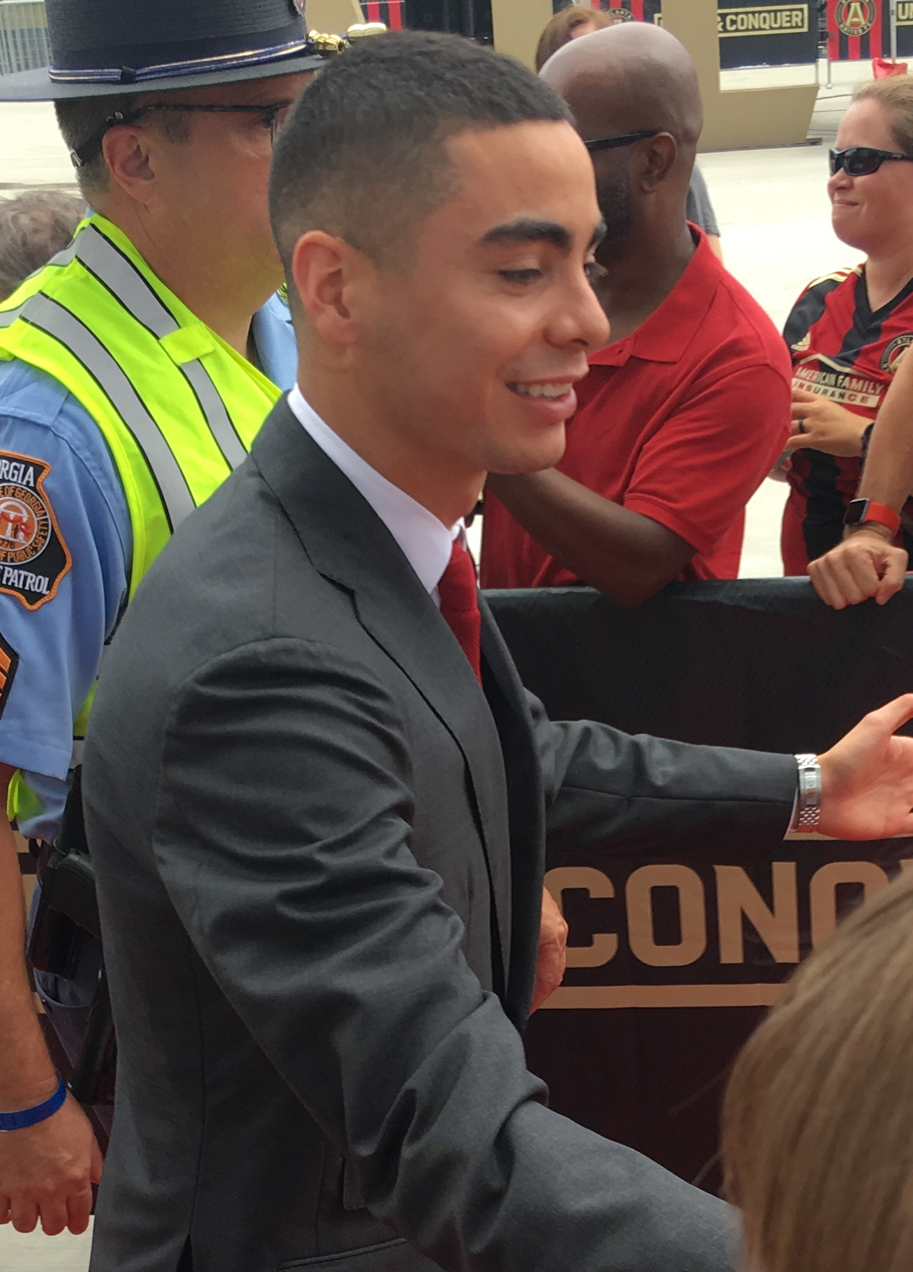 Miguel Almirón after signing the Golden Spike for Atlanta United on August 19th, 2018